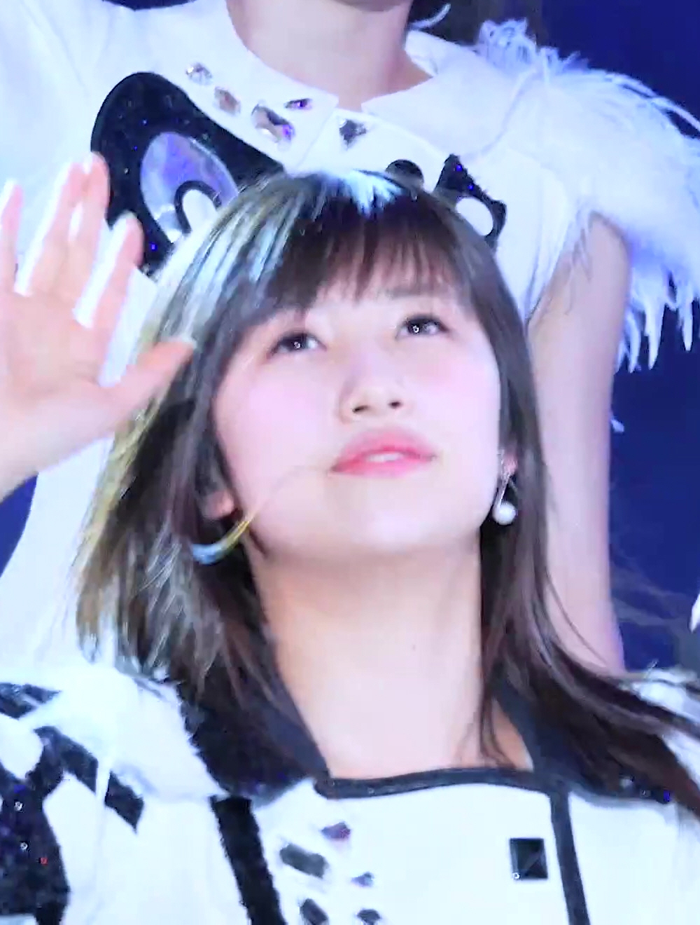 161006 AMN 빅 콘서트 - 마키노 마리아 모닝구무스메 메들리 직캠